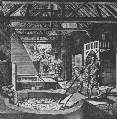 Dyeing art, old printmaking